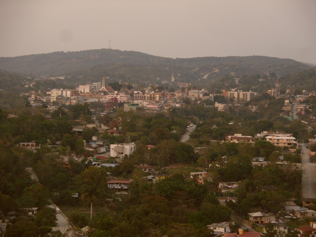 Tantoyuca landscape